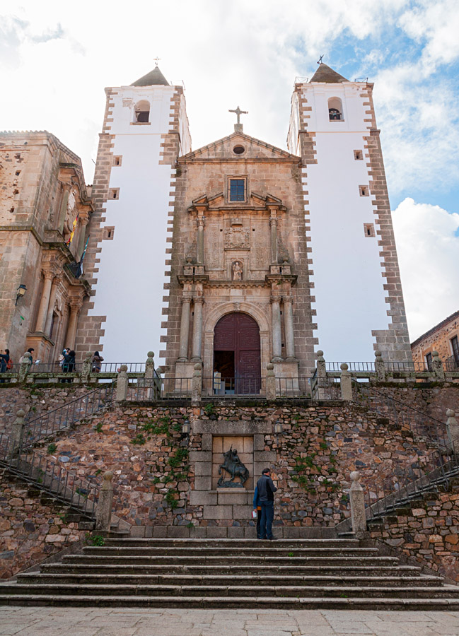 Iglesia de San Francisco Javier. Ciudad de Cáceres. Extremadura. España.